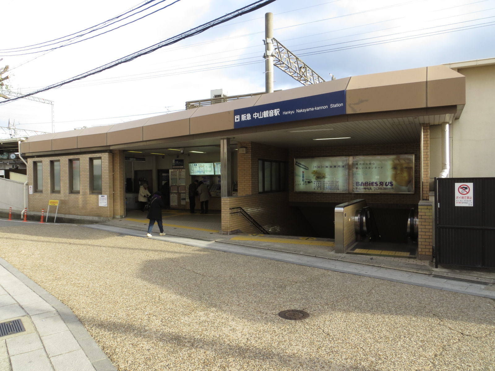 North entrance from Nakayama-kannon Station (HK53), Hankyu Takarazuka Main Line.